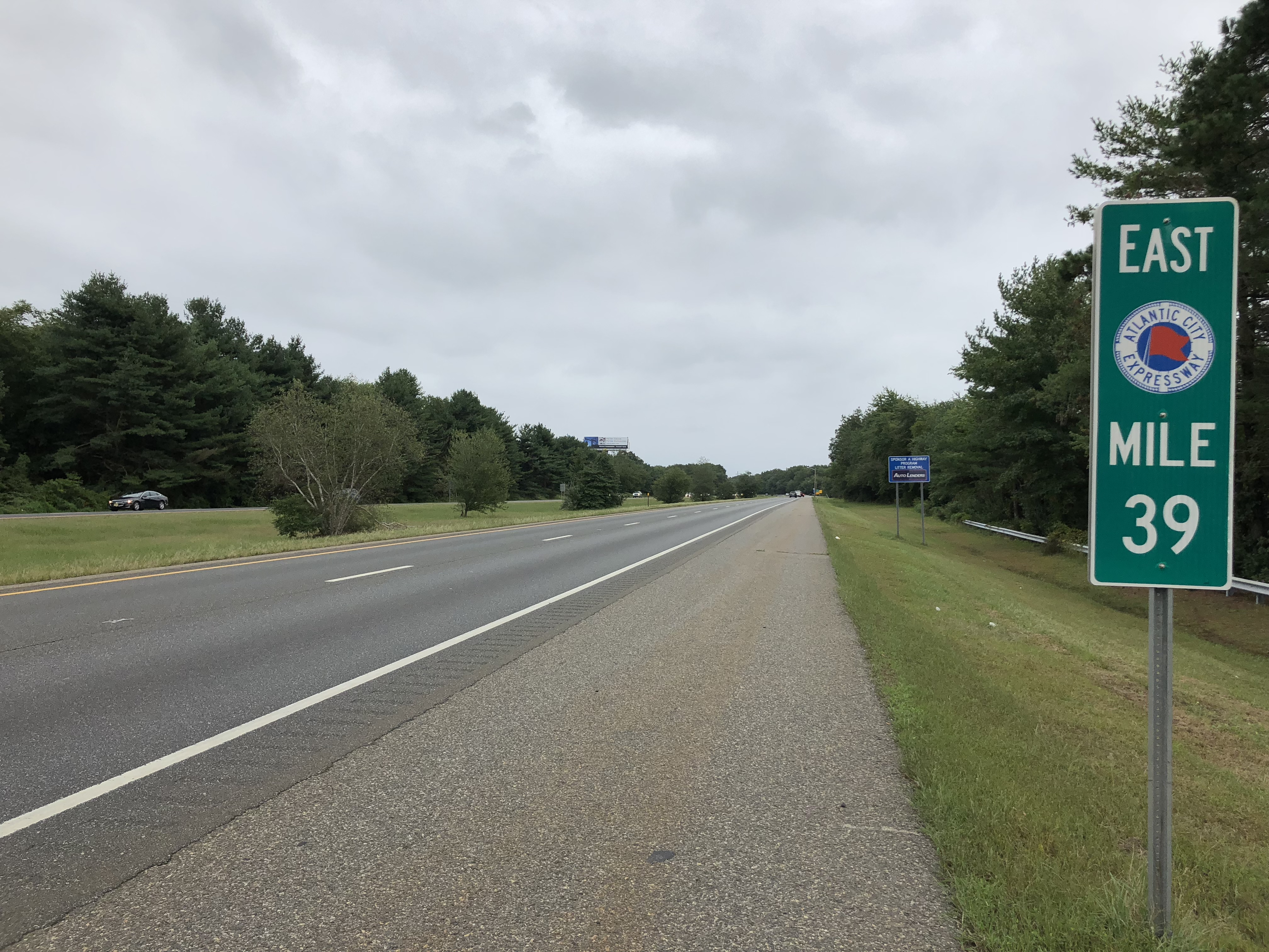 View east along New Jersey State Route 446 (Atlantic City Expressway) just west of Exit 38 in Winslow Township, Camden County, New Jersey